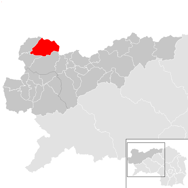 District Leoben